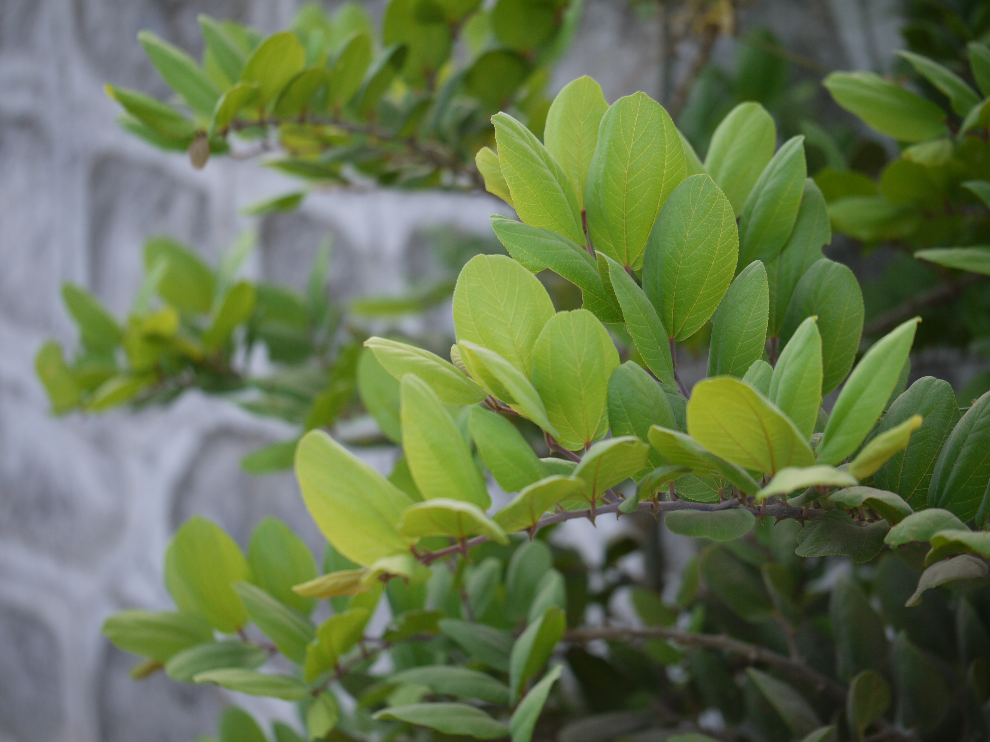 Rhamnaceae (buckthorn family) » Zizyphus rugosa ZIZ-ih-fuss -- an ancient Greek name derived from the Persian word zizafun roo-GO-suh -- meaning, wrinkled commonly known as: wild jujube, wrinkled jujube • Hindi: churna • Kannada: ಕೊಟ್ಟಮುಳ್ಳು kottamullu, ಮುಳ್ಳುಹಣ್ಣೂ mulluhannu • Konkani: चुर्णी churni, तुरण turan • Malayalam : ചെറുതുടലി ceruthutali • Marathi: तोरण toran, तुरण turan • Tamil: தொடரி totari • Telugu: గొట్టికంప gottichettu References: Flowers of India • eFlora • Further Flowers of Sahyadri by S Ingalhalikar